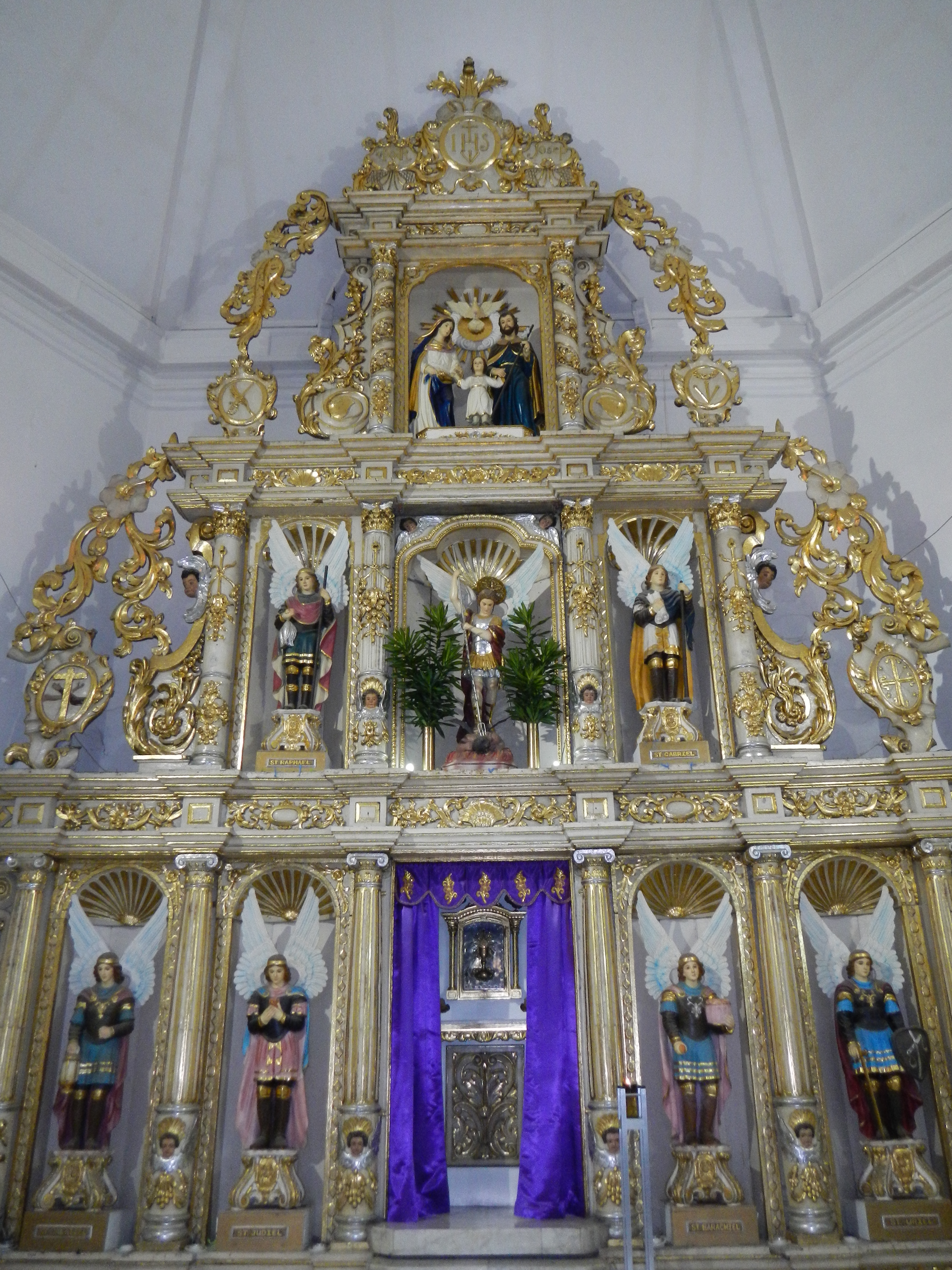 1667 St. Michael the Archangel Parish Church of Orion (Orion 2102 Bataan, Philippines) , Vicariate of St. Michael Archangel Pop.: 40,485 Cath.: 36,477 Titular: St. Michael, the Archangel, May 8 and September 29 Incumbent Parish Priest, Fr. Edilfredo R. Cruz, Former Parish Priest: Monsignor Victor Ocampo Parochial Vicar: Father Ramon Magana - The Vicariate of St. Peter Parish Priest: Rev. Msgr. Antonio S. Dumaual Parochial Vicars: Rev. Fr. Maximino D. Villanueva, Jr. Rev. Fr. Percival V. Medina - Roman Catholic Diocese of Balanga[1][2][3][4][5]